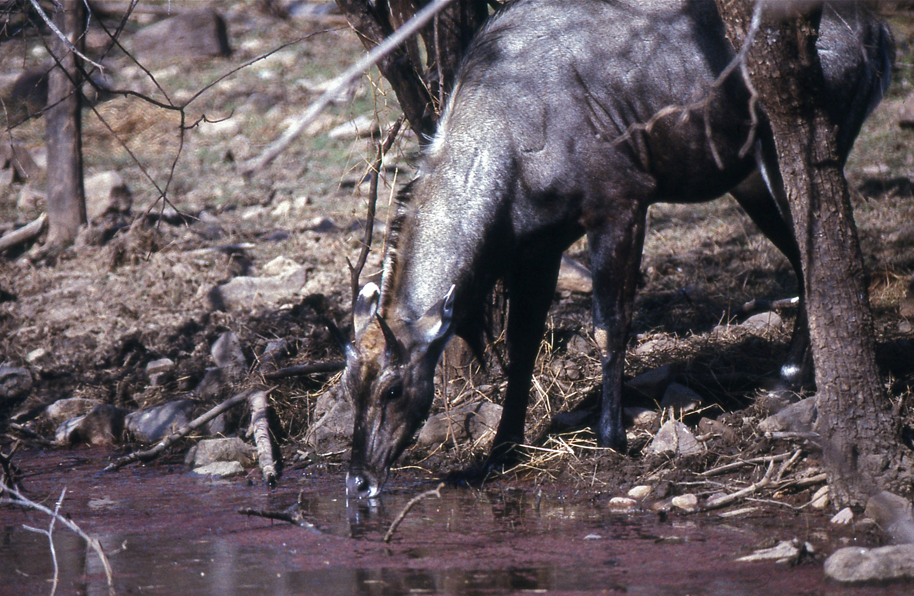 Ranthambore NP, Rajasthan, INDIA Scanned Slide from February 1994